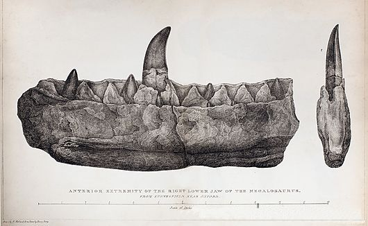 Uncoloured Plate XL of Megalosaurus' jaw and teeth drawn by Mary Moreland, from William Buckland's "Notice on the Megalosaurus or great Fossil Lizard of Stonesfield". Transactions of the Geological Society of London, series 2, vol 1: 390 -396. A monumental year in palaeontology seeing (in this volume) both Buckland's first scientific description of a dinosaur, Megalosaurus, and Conybeare's first validation of long necked Plesiosaurs and scientific reconstructions of Plesiosaurs and Ichthyosaurs. Mary Moreland who drew the plates would later become Rev. Buckland's wife. These were some of the very few bones from which Richard Owen would base his reconstruction of Megalosaurus for Waterhouse Hawkins' Crystal Palace reconstructions in 1854. The jaw is still on display in the Oxford Museum - artist Mary Buckland, née Morland (1797-1857), British palaeontologist